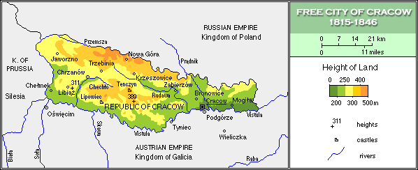 Map of the Free City of Cracow/Kraków 1815-1846 English version